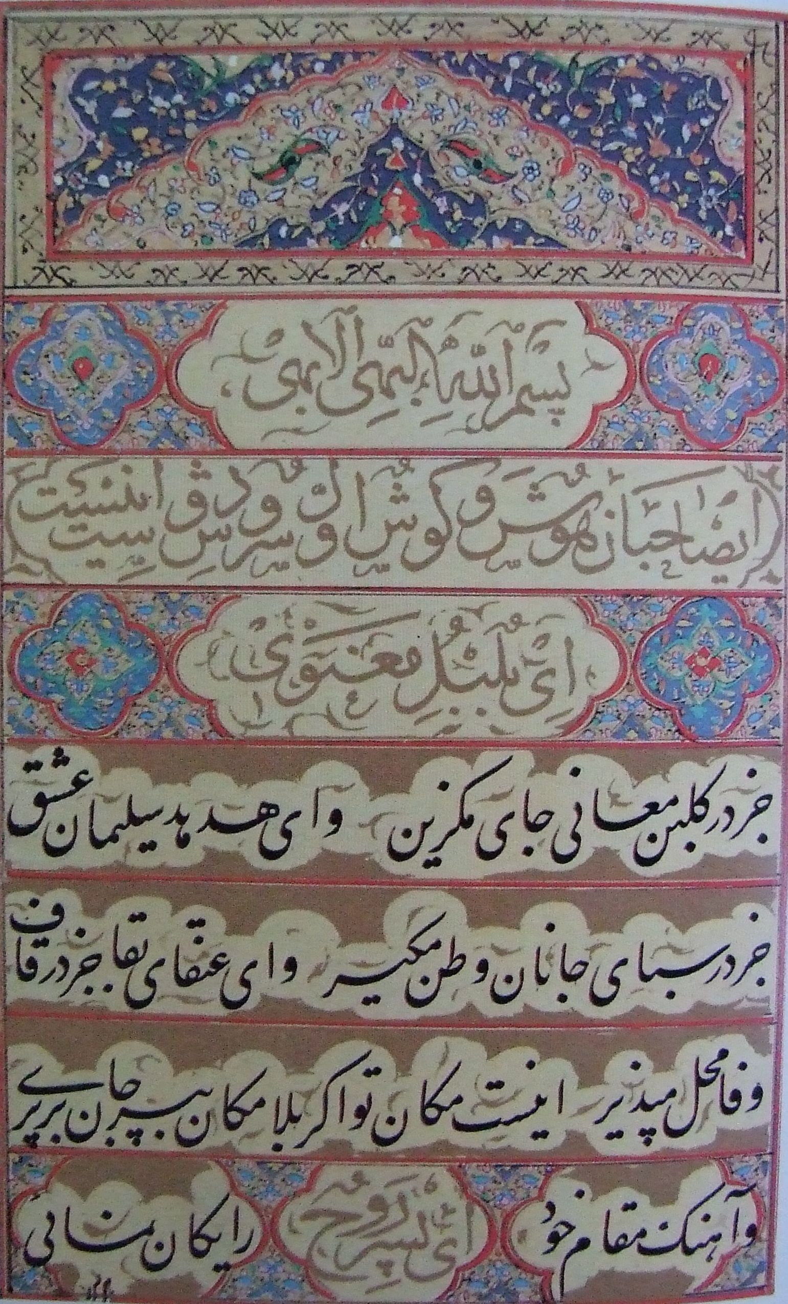 Calligraphy by Mishkín-Qalam (1826-1912)